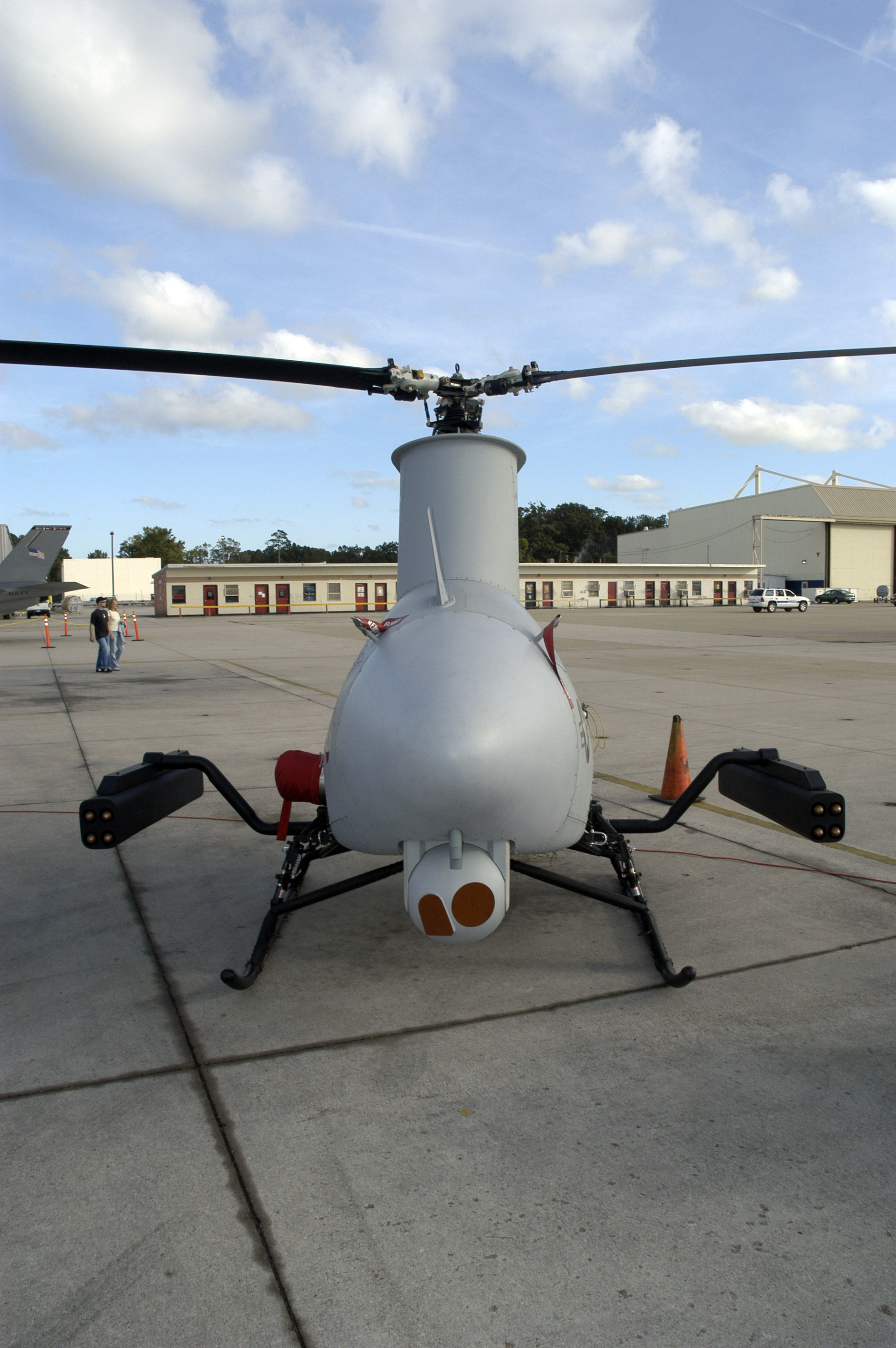 Naval Air Station Oceana, Va. (Sept. 24, 2004) – A Northrop Grumman RQ-8B Fire Scout Vertical Take-Off and Landing Tactical Unmanned Aerial Vehicle (VTUAV) System sits on the flight line as a static display at the 2004 "In Pursuit of Liberty," Naval Air Station Oceana Air Show. The Fire Scout has the ability to autonomously take off and land on any aviation-capable warship and at unprepared landing zones in proximity to the forward edge of the battle area. The air show, held Sept. 24-26, showcased civilian and military aircraft from the Nation's armed forces, which provided many flight demonstrations and static displays. U.S. Navy photo by Photographer's Mate 2nd Class Daniel J. McLain (RELEASED)